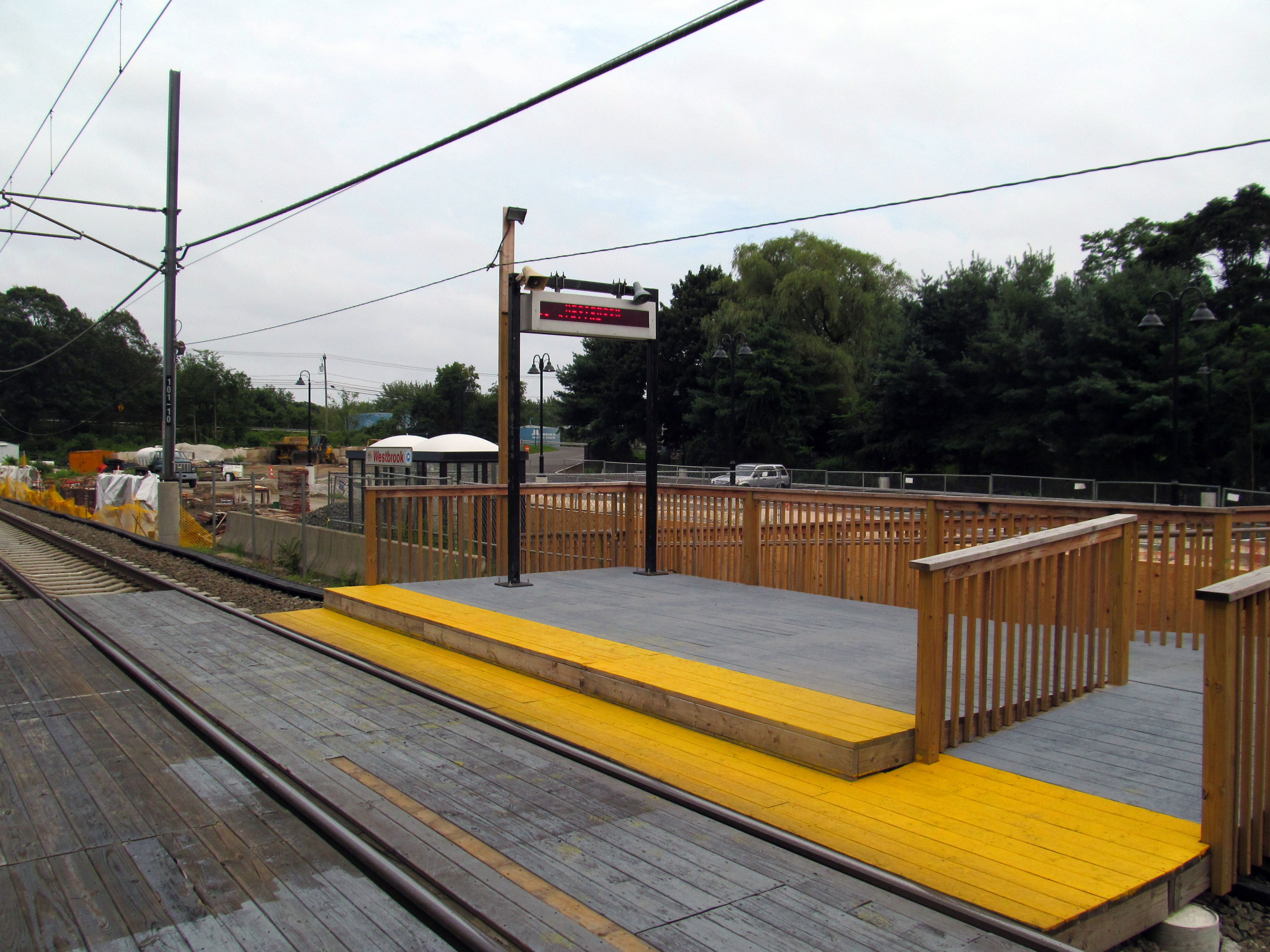 Temporary wooden platform at Westbrook for use while the new station is under construction